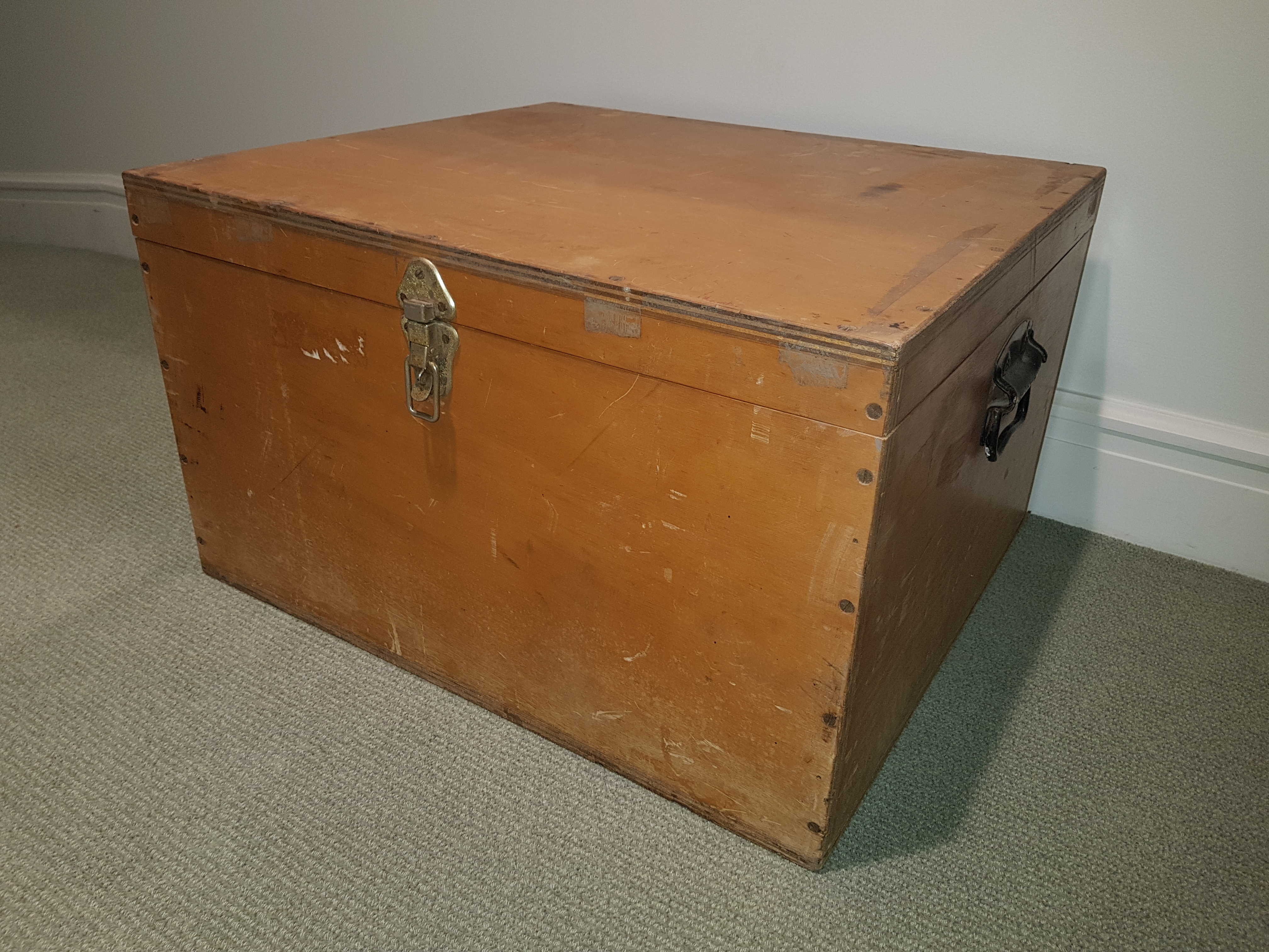 Sister Ellen Kettle's trunk on display at the Northern Territory Library. Kettle was a remote area nurse in the Northern Territory of Australia, who used this trunk to store her papers and as a desk. Her trunk was donated by her family, along with her manuscripts and images.